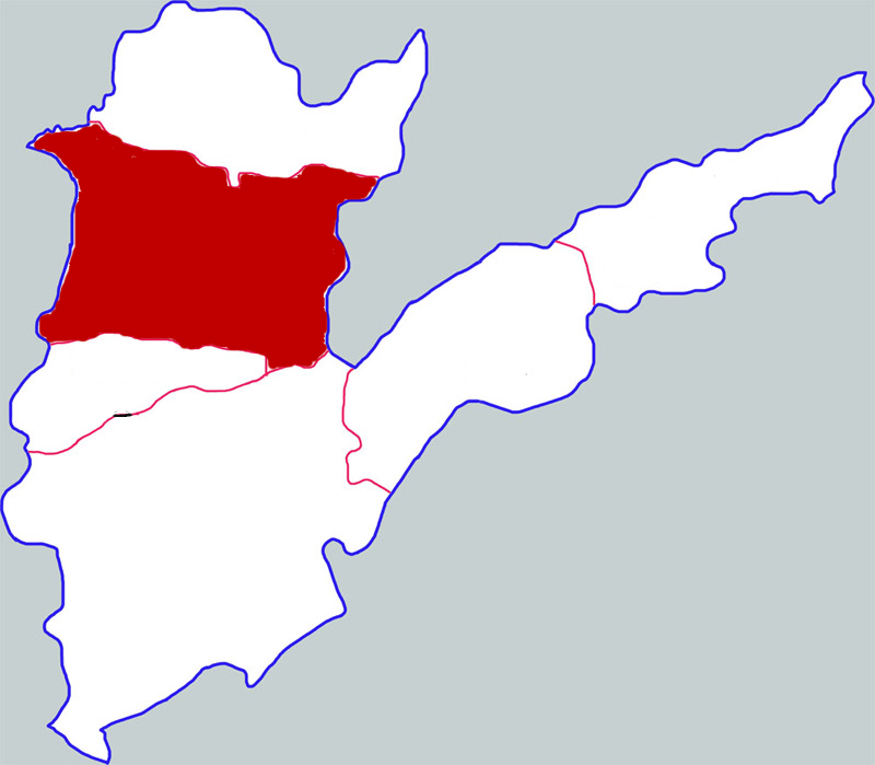 Location of Qingfeng county in Puyang city, China